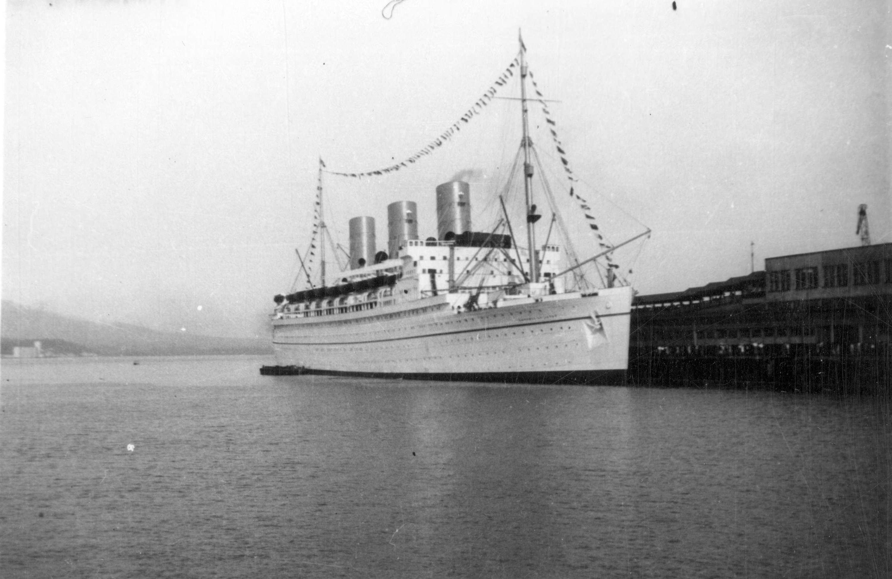 Empress of Japan docked at Vancouver.